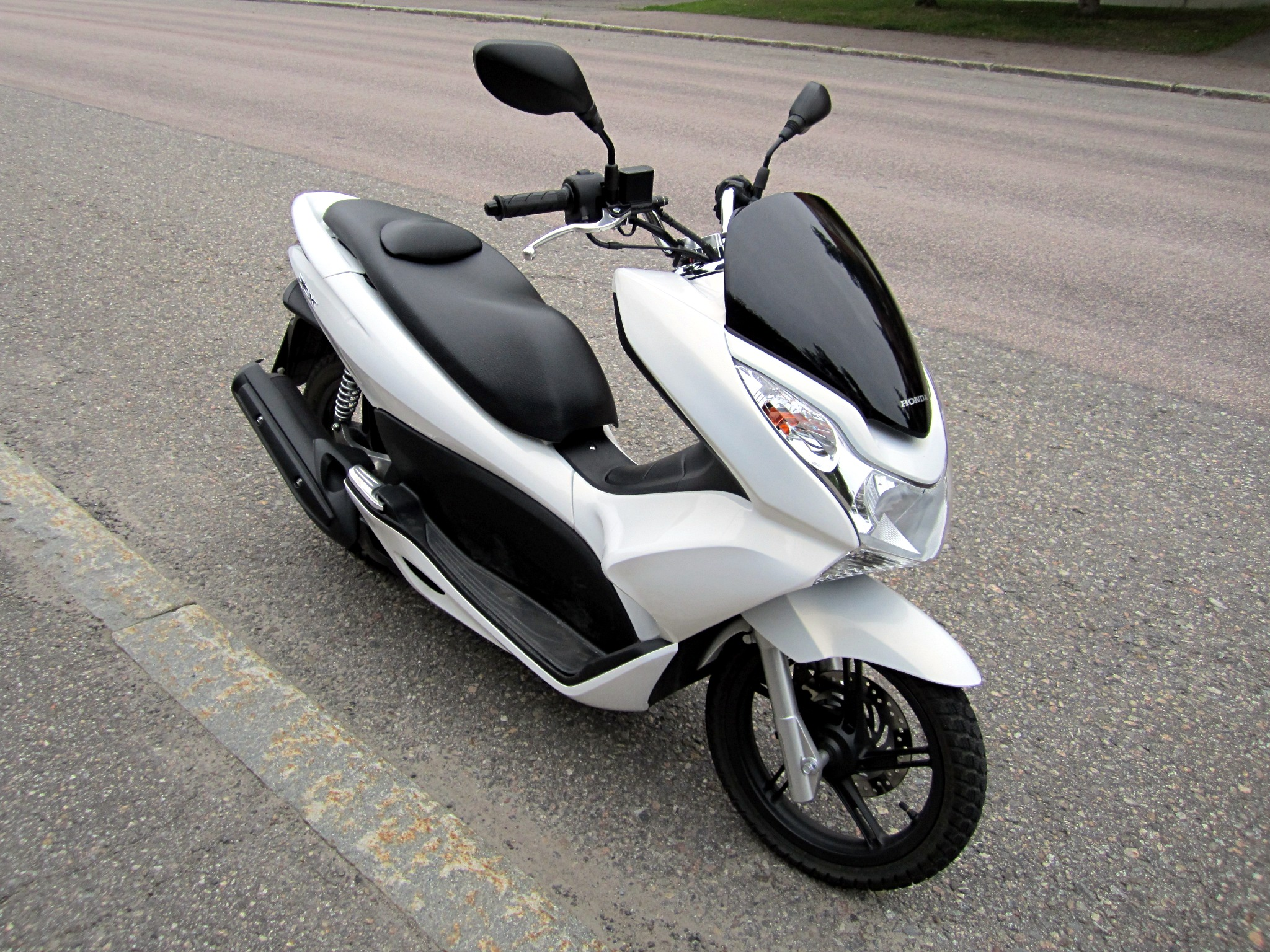 Honda's 125 cc class motor scooter PCX, year 2011. Made in Thailand. This is the first generation PCX.